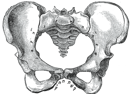 Female pelvis